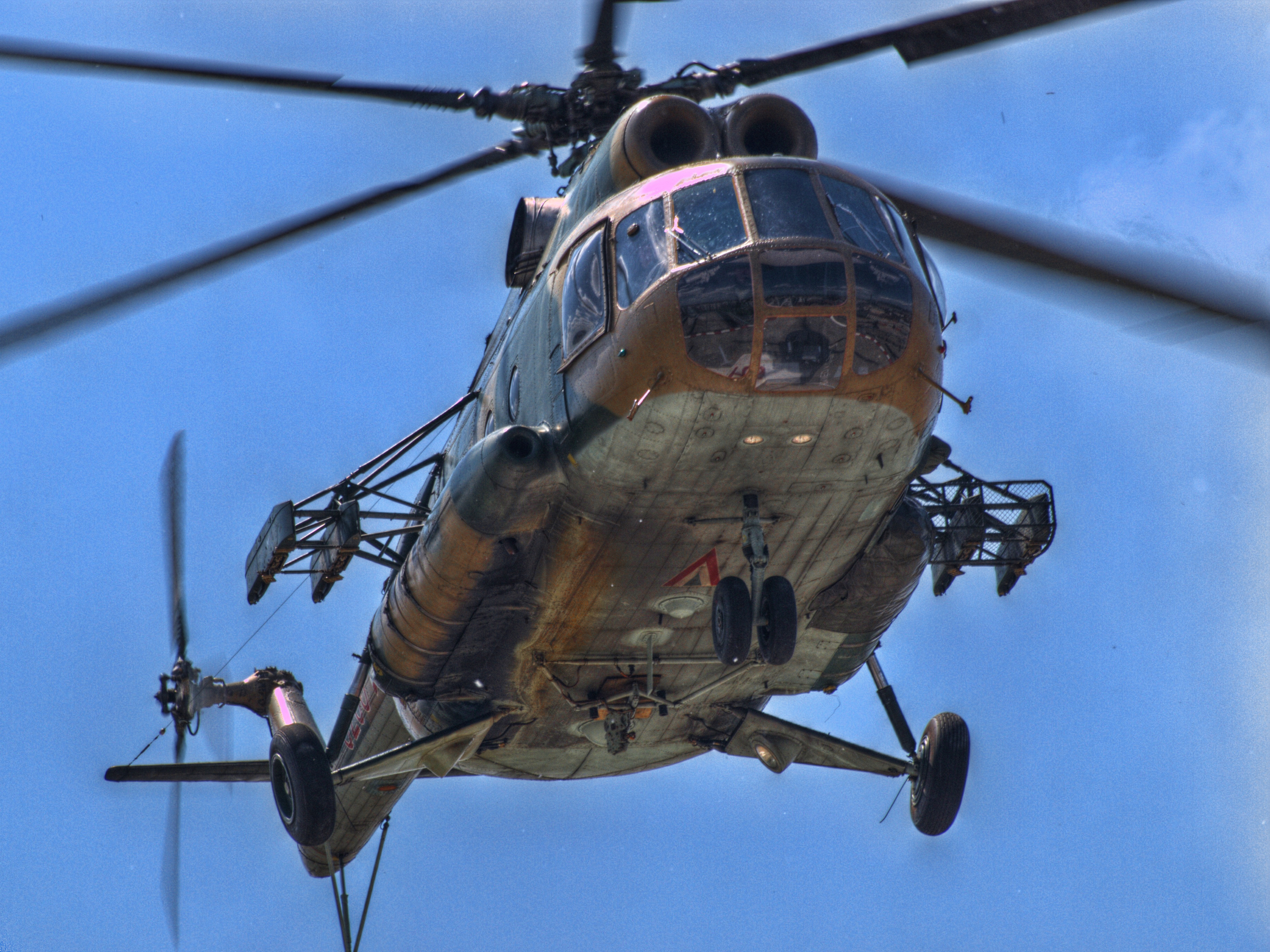 Hungarian Army Mi-8T '6206' during helipad evaluation/certification over Honvédkórház (Army Hospital) at Budapest